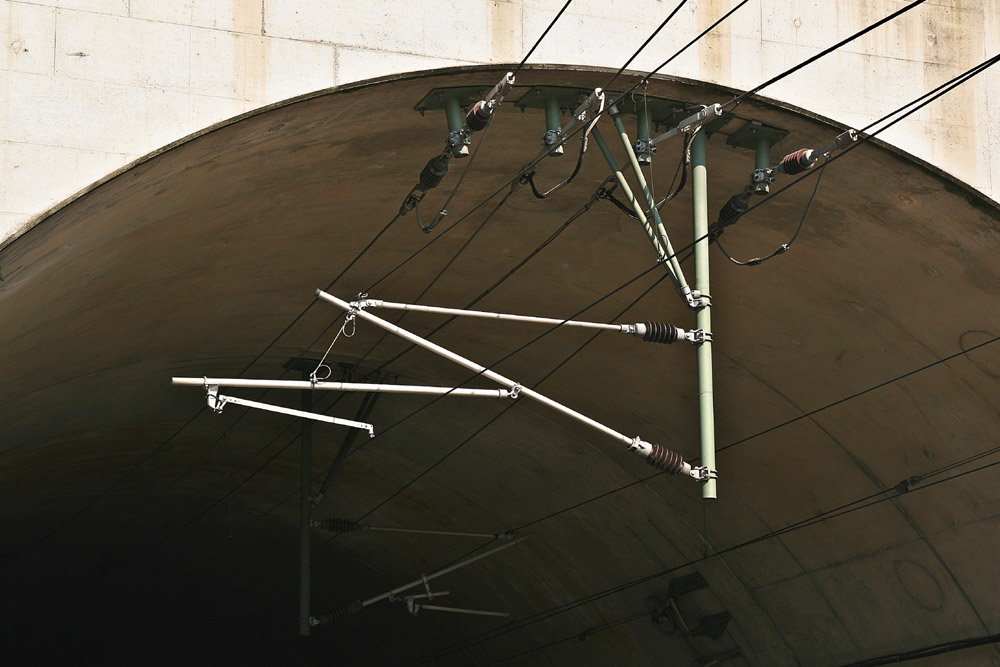 Catenary mounting on a tunnel entrance of the Cologne-Frankfurt high-speed rail line